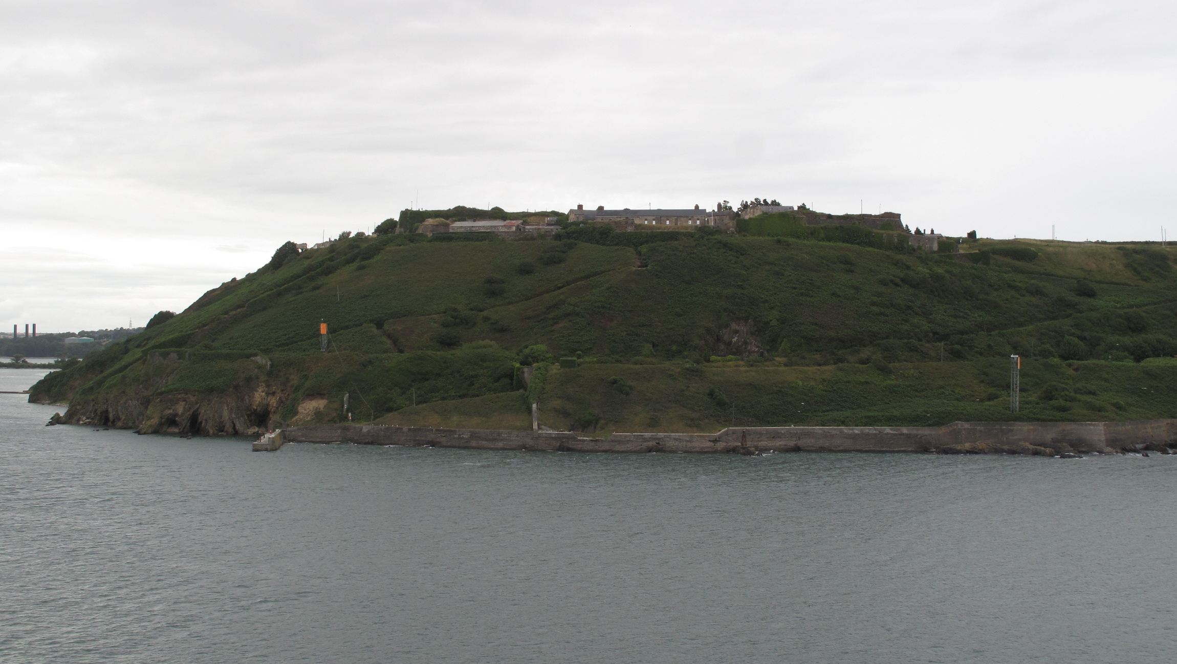 Fort Davis Whitegate County Cork Ireland - Taken from deck of vessel exiting Cork Harbour